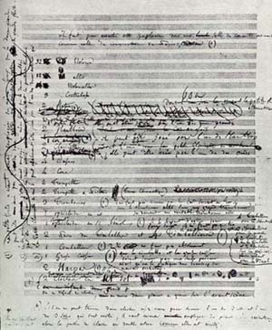 Hector Berlioz (1803 – 1869) First page of the original Symphonie Fantastique manuscript